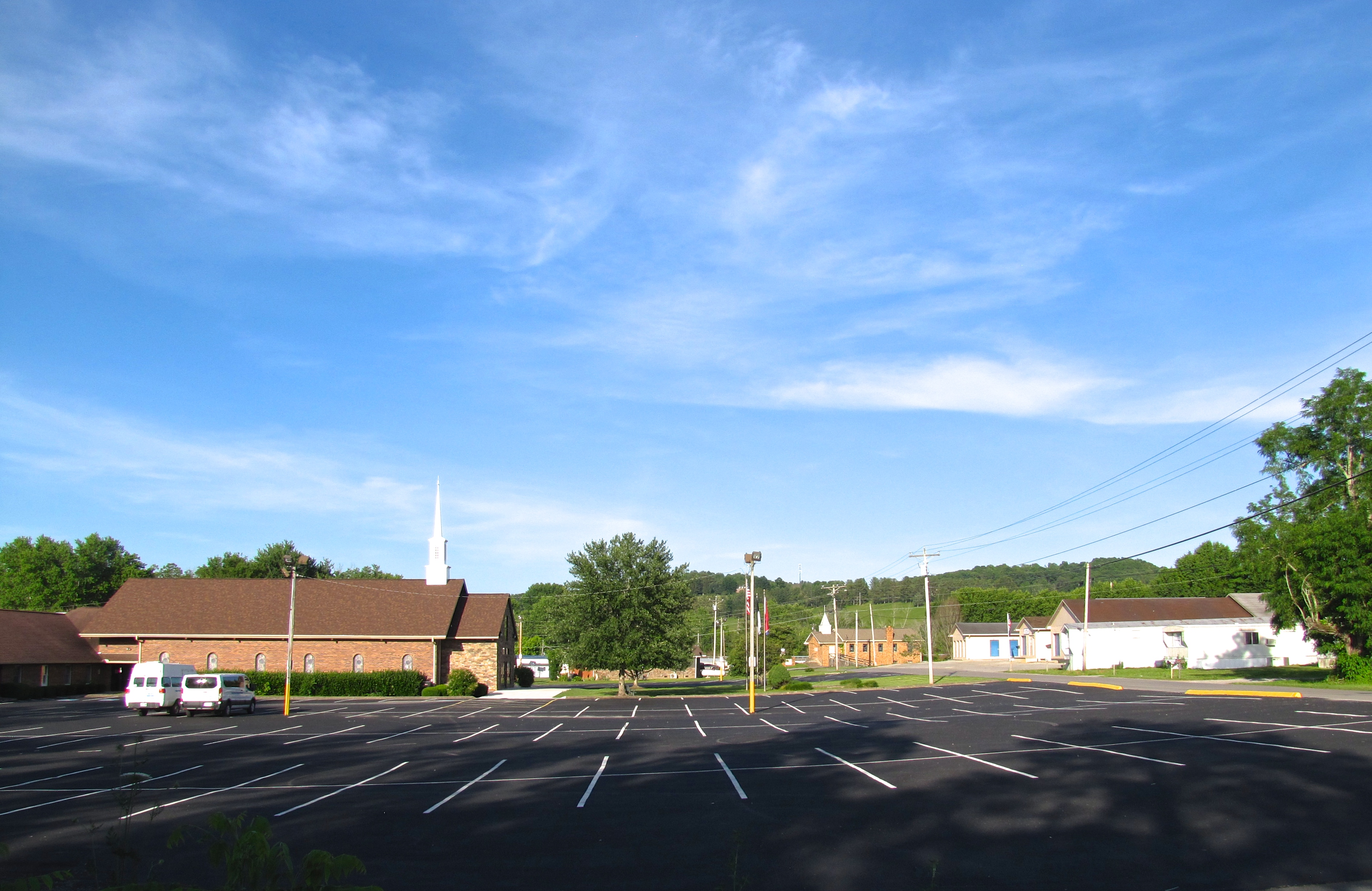 Churches and other buildings along Arthur Road in Arthur, Tennessee, United States.